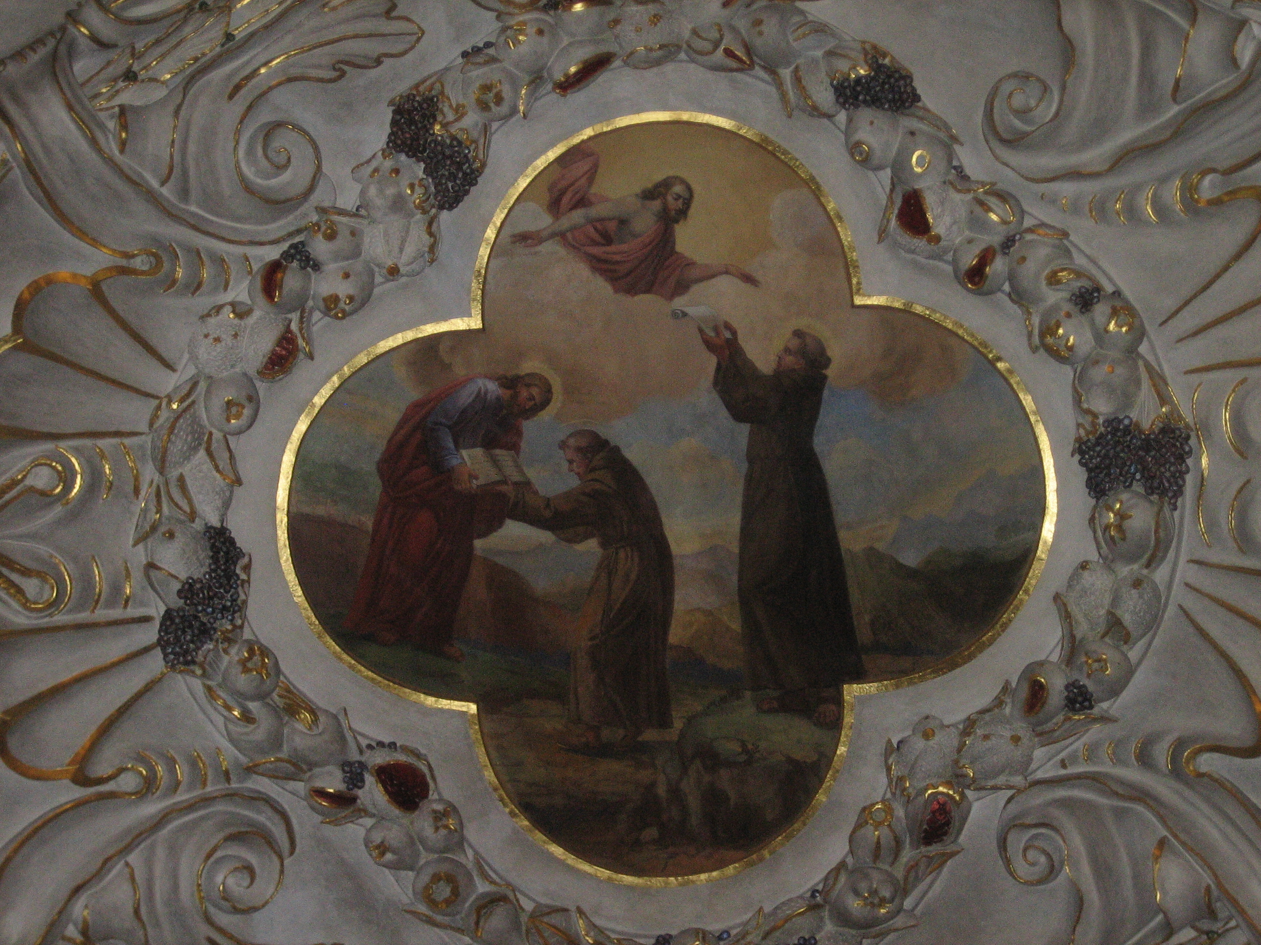 St. Francis Church of the franciscans in Zagreb, Croatia. Ceiling picture of st. Francis receiving the Gospel from Christ.